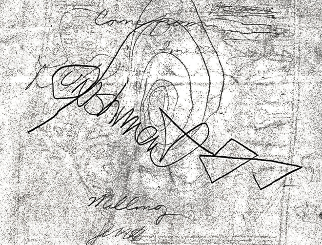 Reverse side of "Punishment" map discovered during the Original Night Stalker investigation.